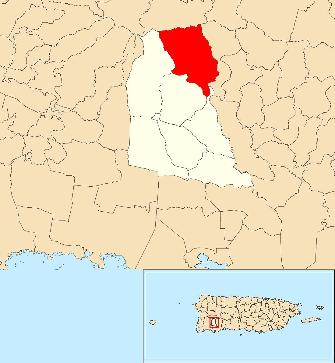 Tabonuco, Sabana Grande, Puerto Rico locator map